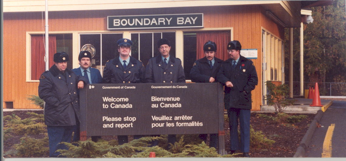 Sporting winter issue, from left to right: customs officers Al Courcy, Doug Gourlie, Lee Murphy, John Brown, Vince Alongi and Ken MacLean. Photo taken in the late 70s at the Boundary Bay border crossing in Delta, B.C., north of Point Roberts, Wa. This Customs house no longer exists, it was replaced by a modern structure sometime in the mid 90s.